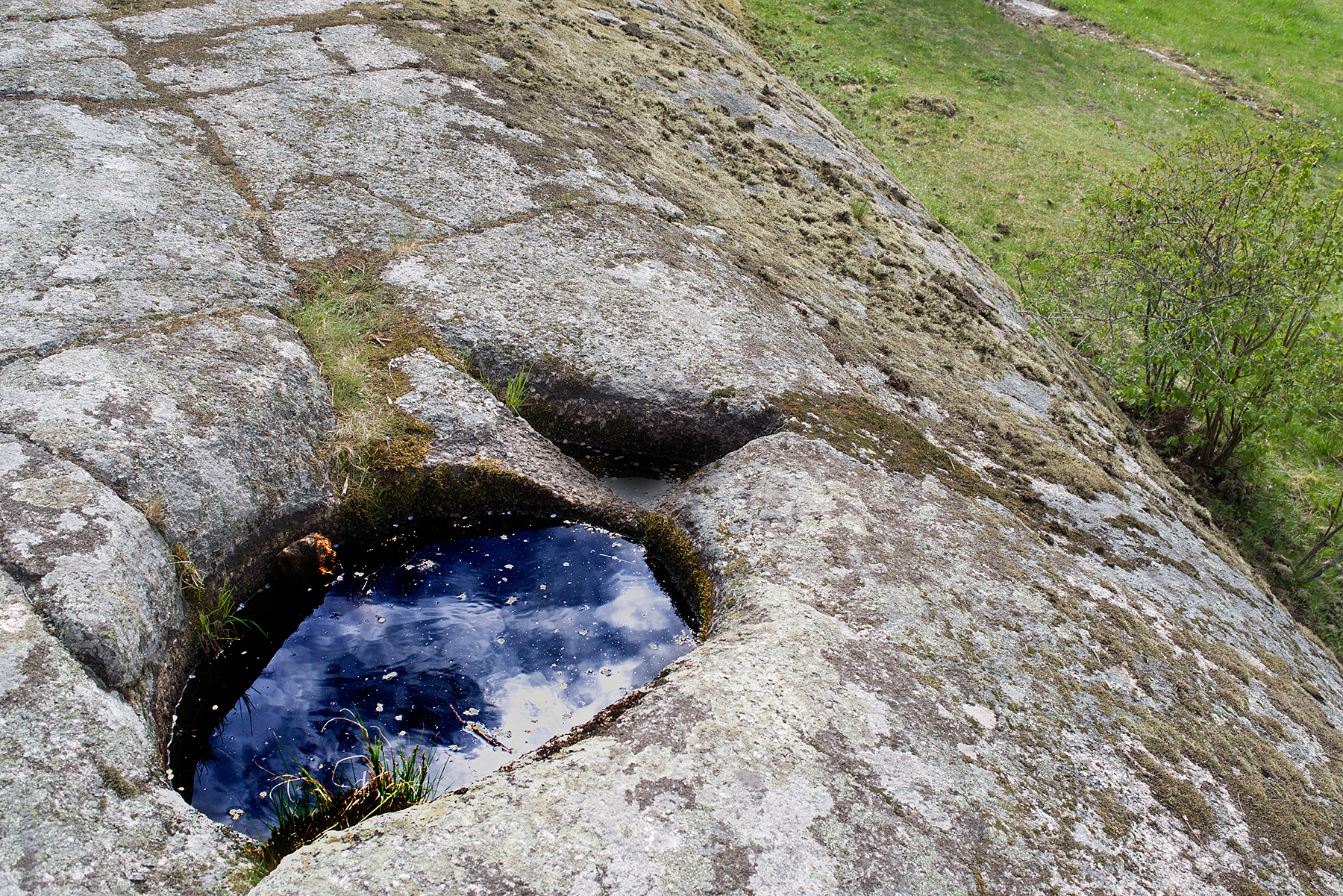 Giant´s kettle